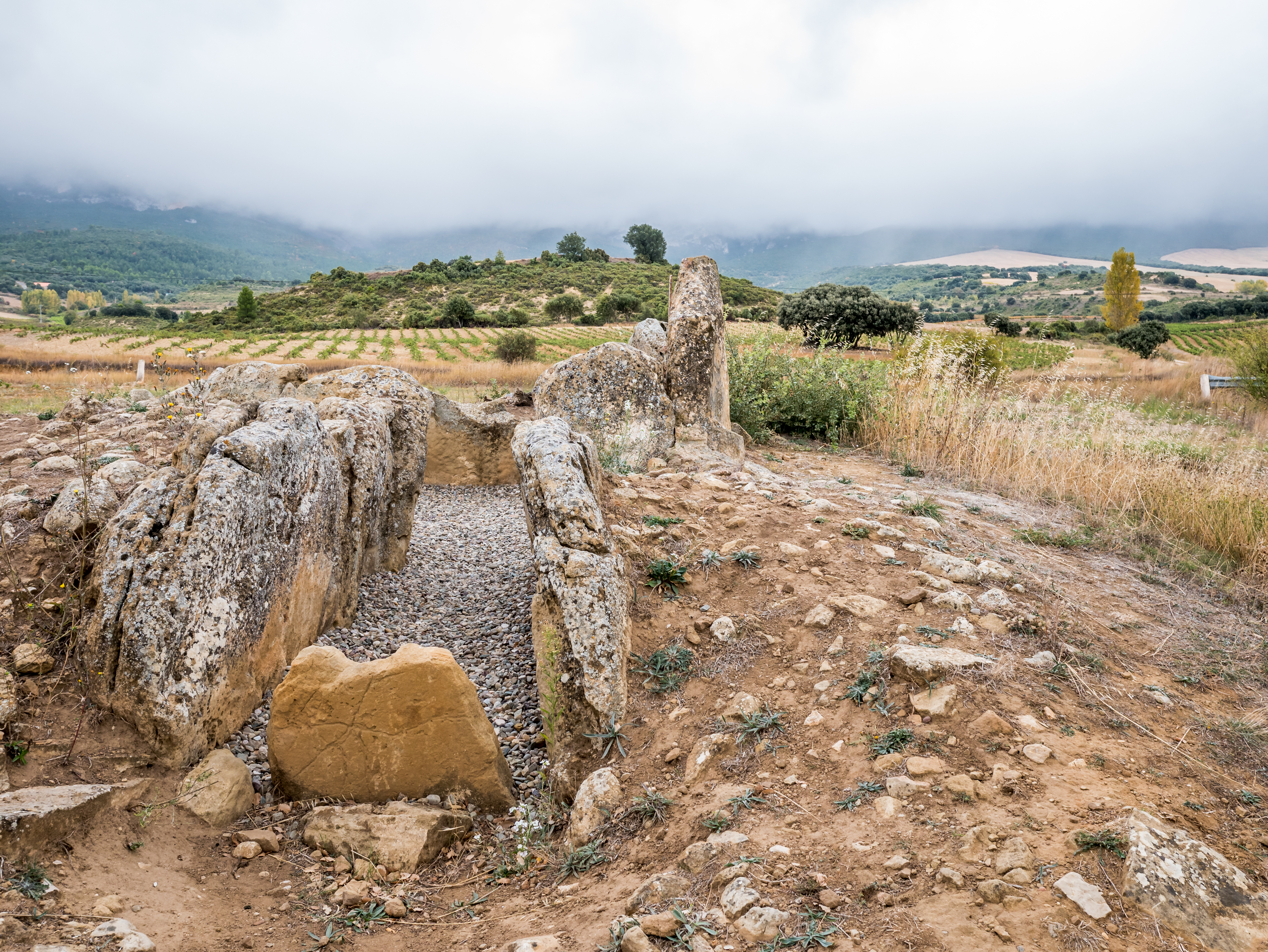 Dolmen El Sotillo near Laguardia. Rioja Alavesa, Basque Country, Spain